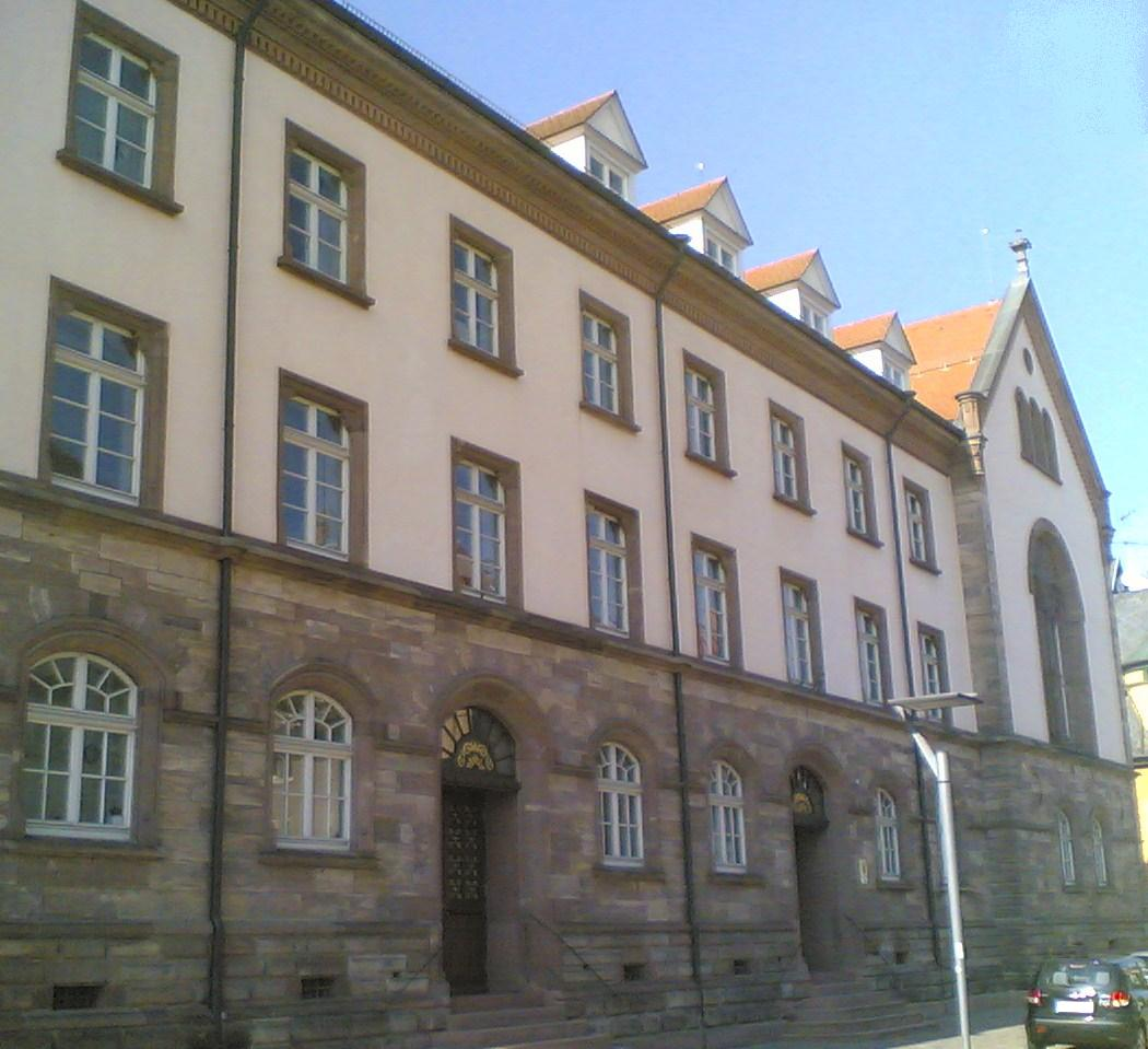 Local court (civil and criminal court) of Villingen-Schwenningen, Germany